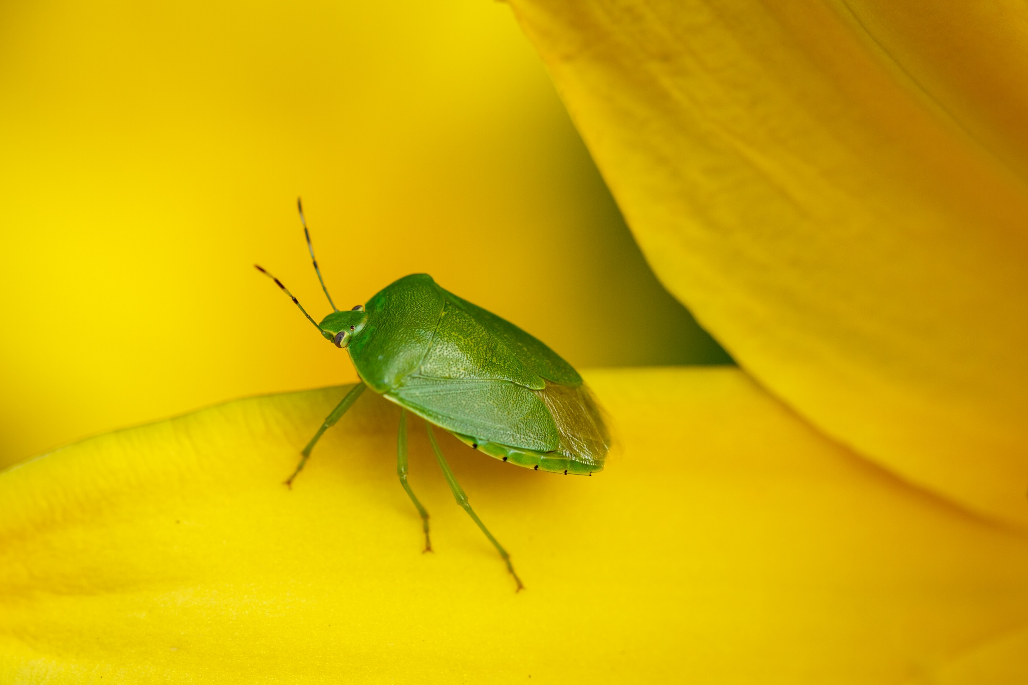 Green stink bug on a Lilly.